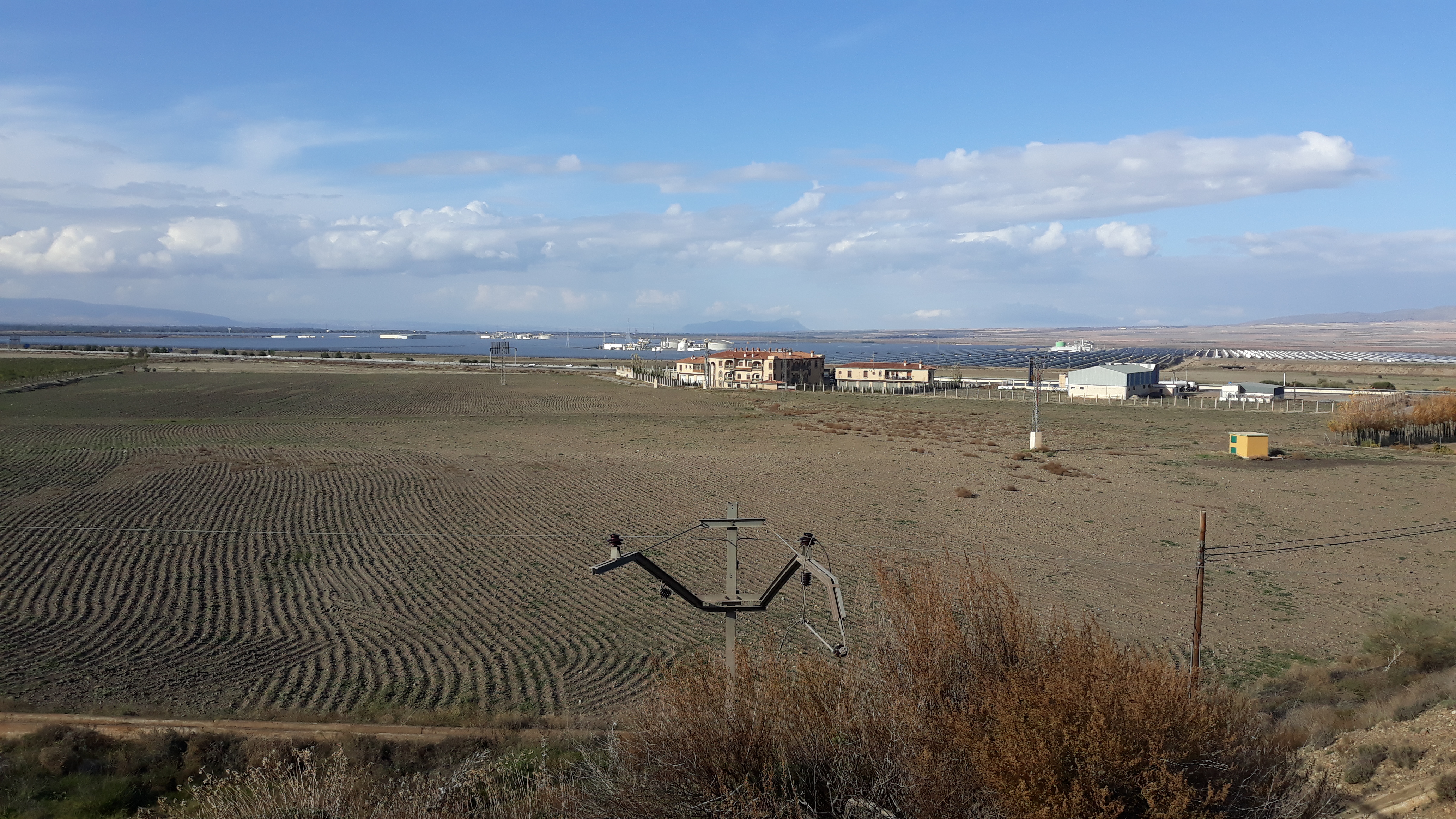 Andasol, a solar thermal power plant near Guadix, in Spain. Picture taken from the A-337 road.